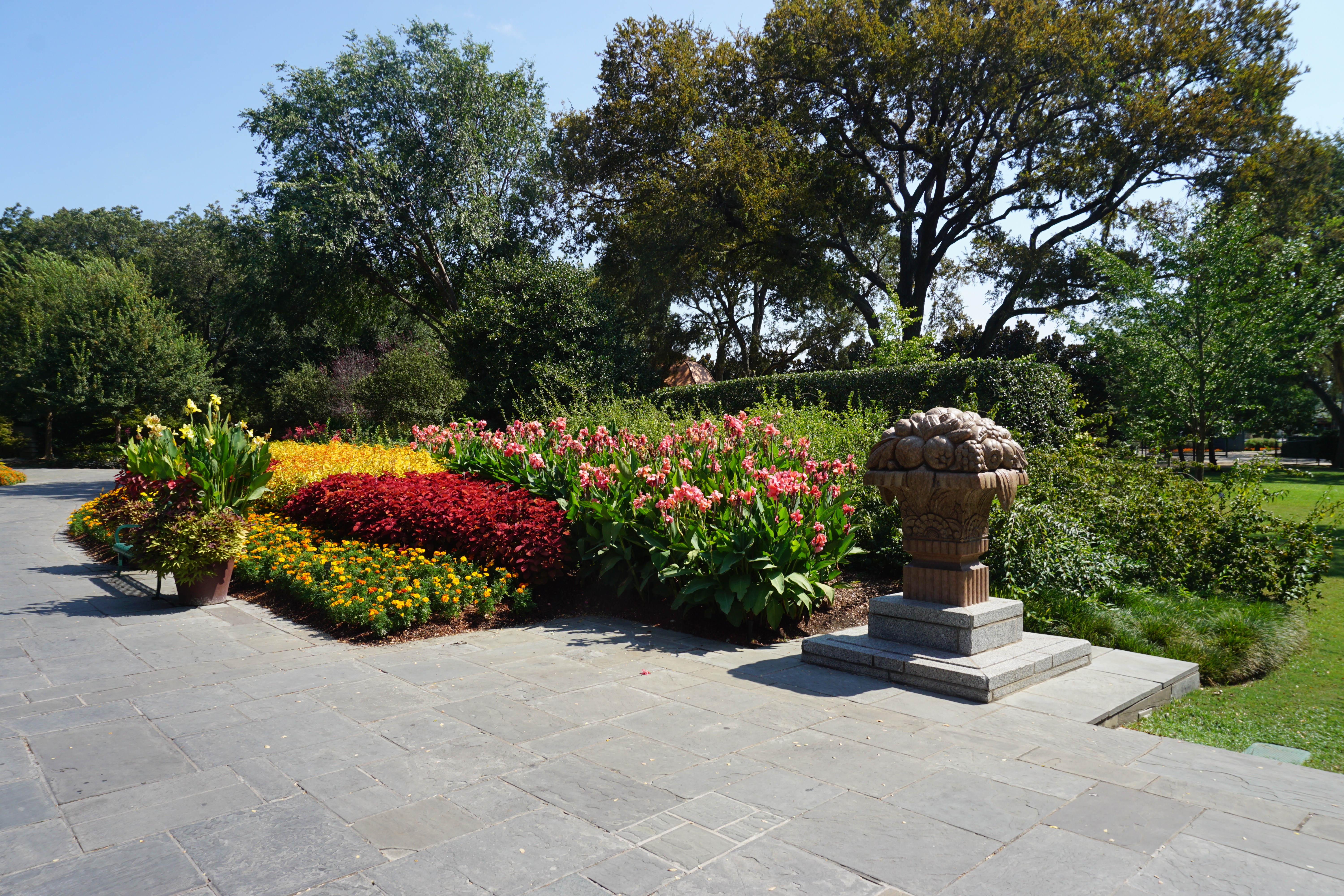 The Paseo de Flores at the Dallas Arboretum and Botanical Garden in Dallas, Texas (United States).